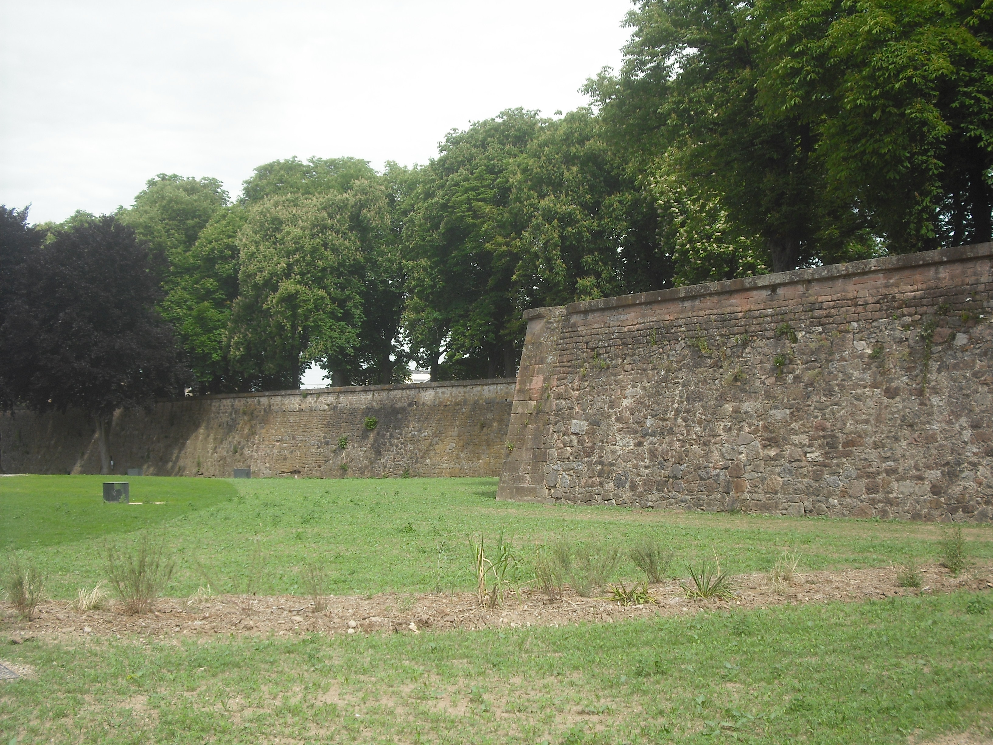 Reste des remparts de Sélestat, France